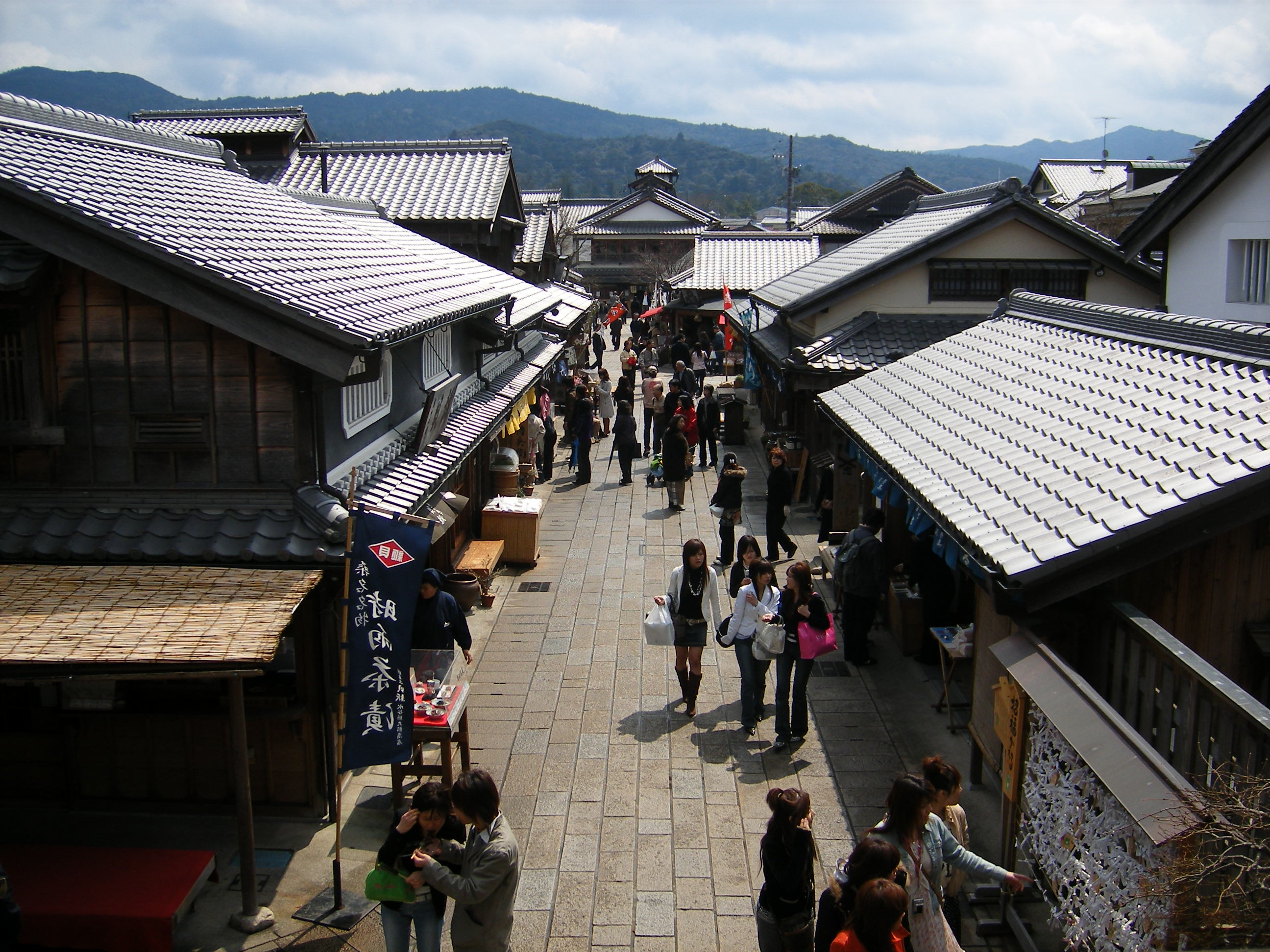 Okage Yokocho, Ise city, Mie prefecture, March 30, 2006. Spring vacation for university students so many young people (like the groups of girls) on the picture.